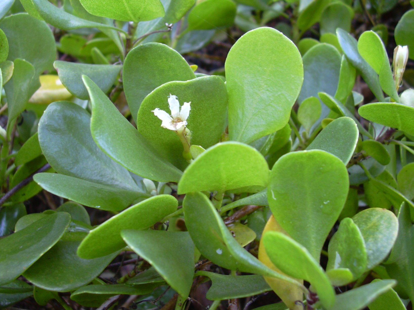 Scaevola coriacea (flower). Location: Maui, Hoolawa Farms Haiku